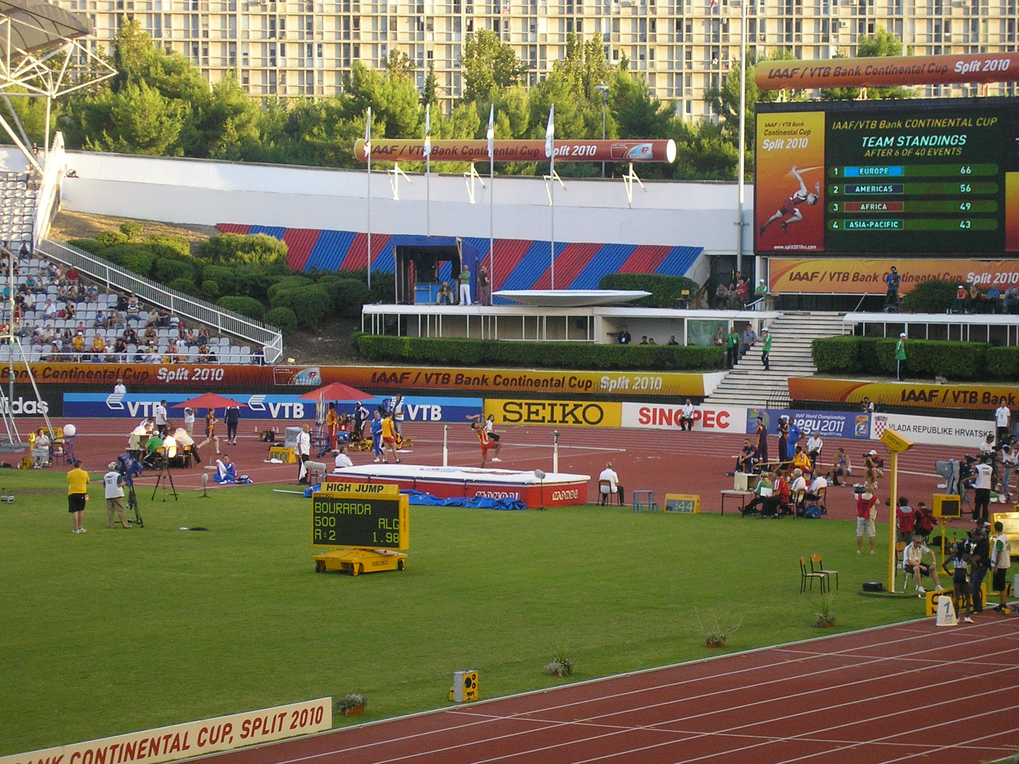 Higj jump (men)